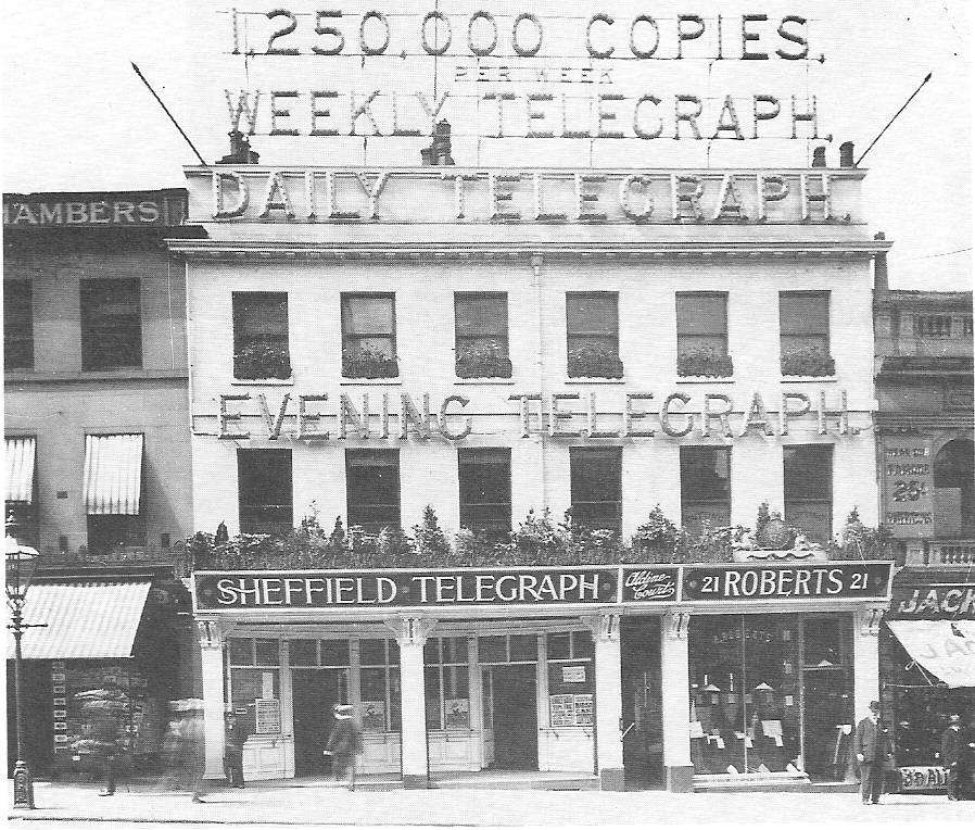 The offices of the Sheffield Daily Telegraph, Weekly Telegraph and Evening Telegraph, on High Street, Sheffield.